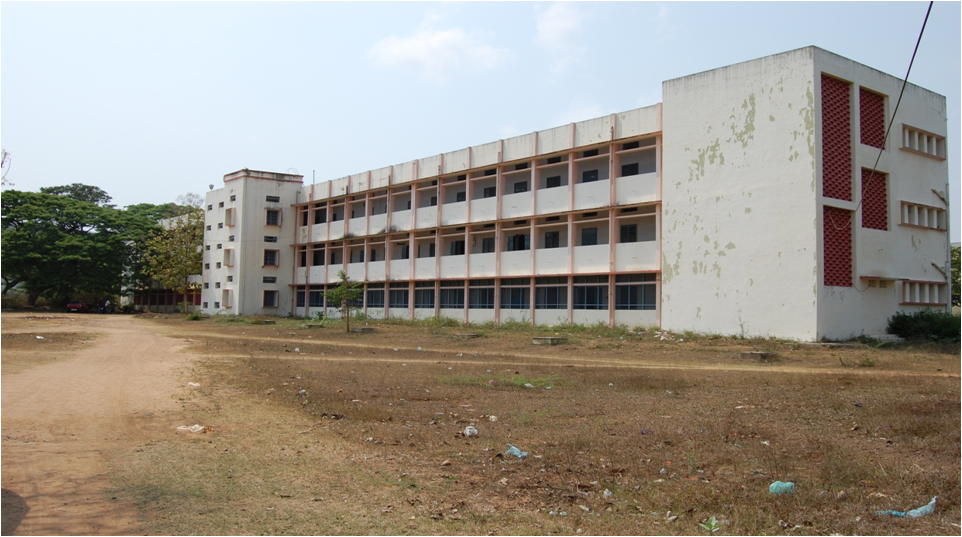 The examination block, situated opposite to the main Anatomy block. The Departments of Pathology, Microbiology, Forensic Medicine and Community Medicine are located here.